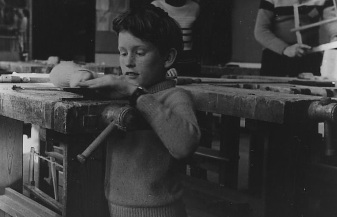 Boy working at a Danish workbench at school. "Peder Syv Skolen", Viby Sjaelland